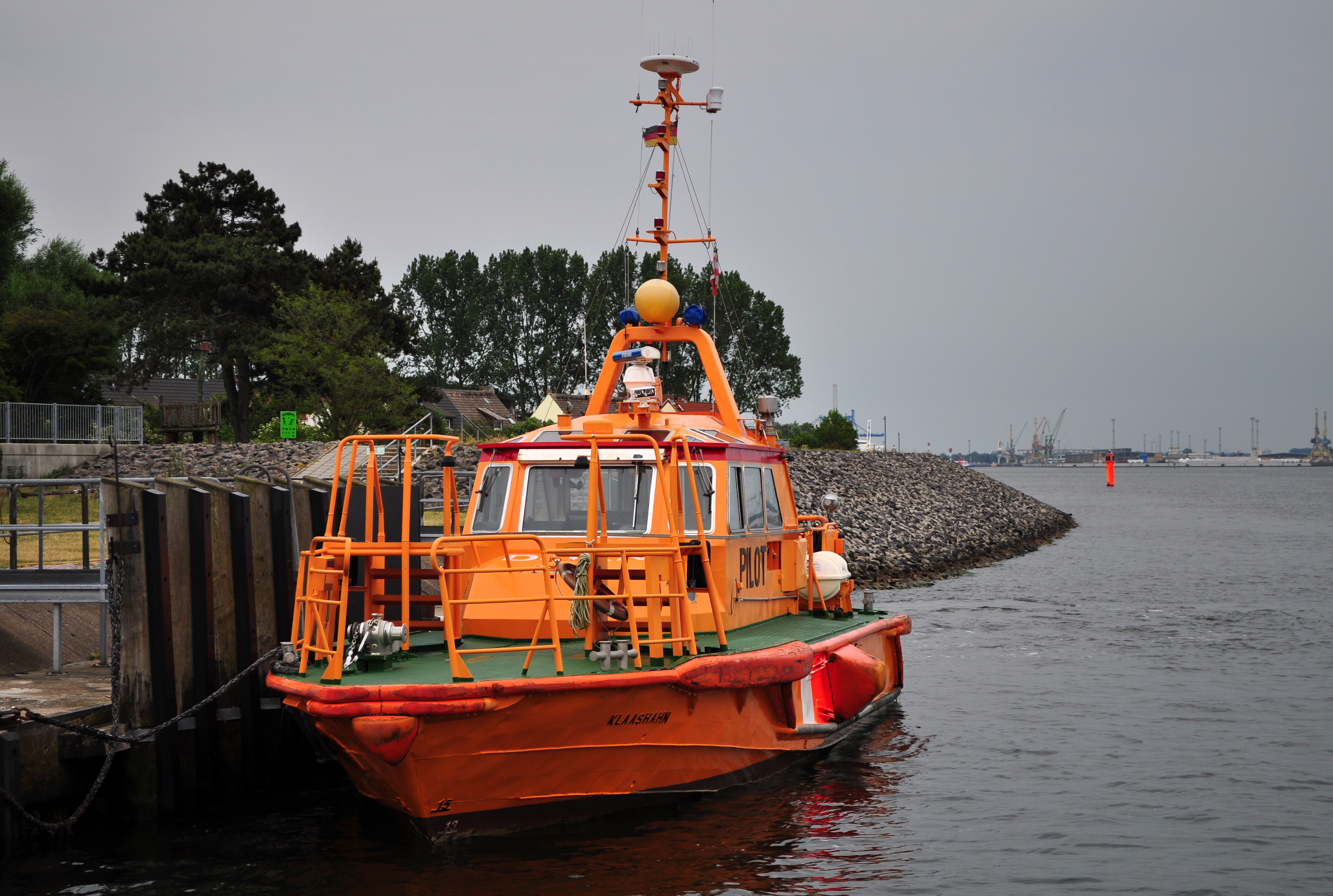 Pilot boat in Rostock